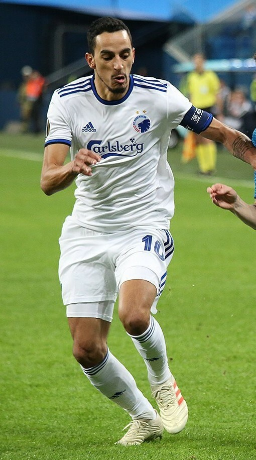 Zeca 1